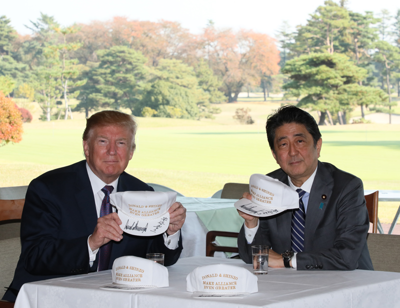 Japanese Prime Minister Shinzō Abe and POTUS Donald Trump showing "Donald & Shinzo – Make Alliance Even Greater" caps.